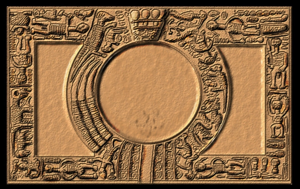 My draw circa: Ifa Divination Tray (Opon Ifa) Fon, Allada, Republic of Benin, Wood; 16th–17th century - Ulmer Museum, Ulm, Exoticophylacium